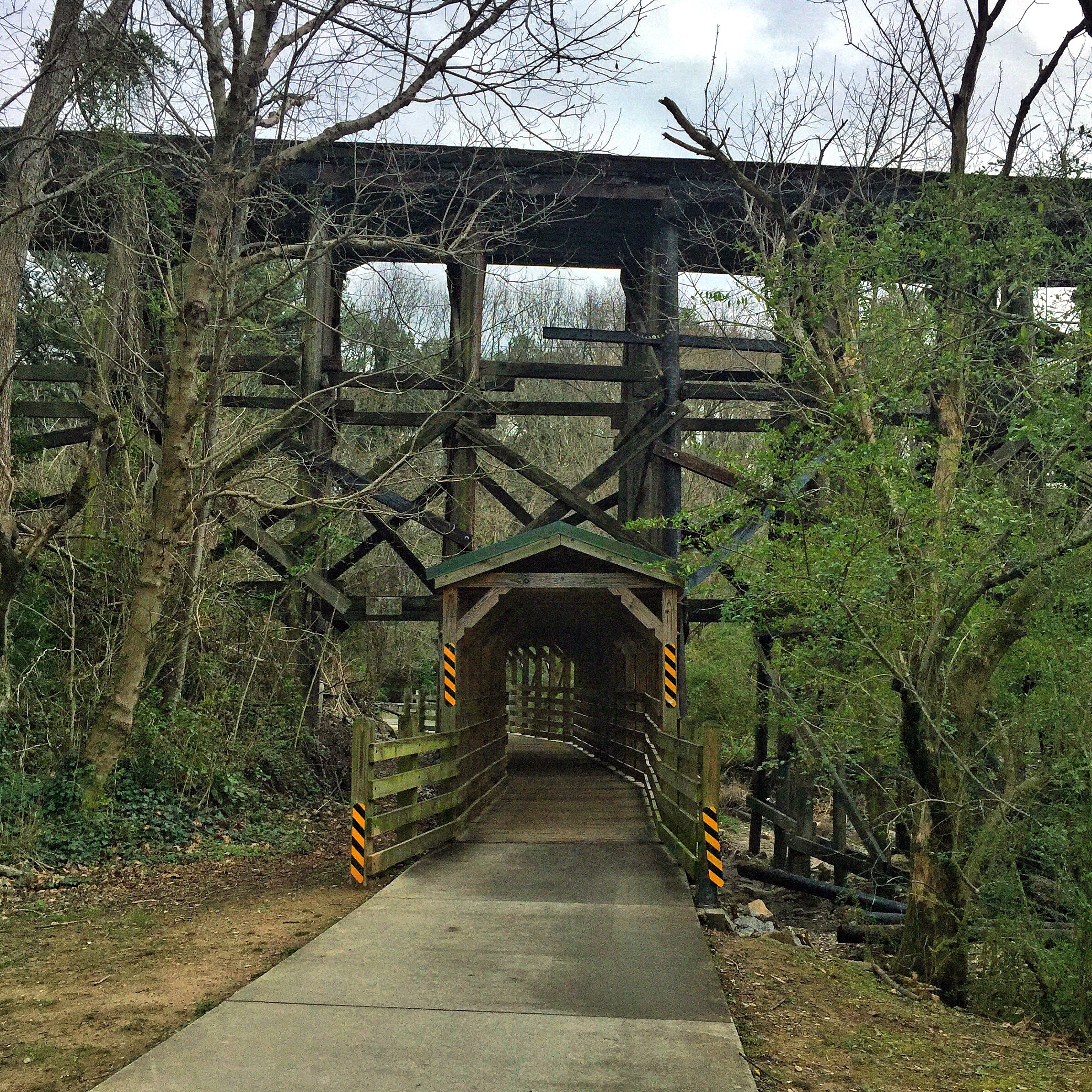 Atlanta BeltLine Passing Through Ardmore Park In northwest Atlanta in the greater Buckhead region of the city